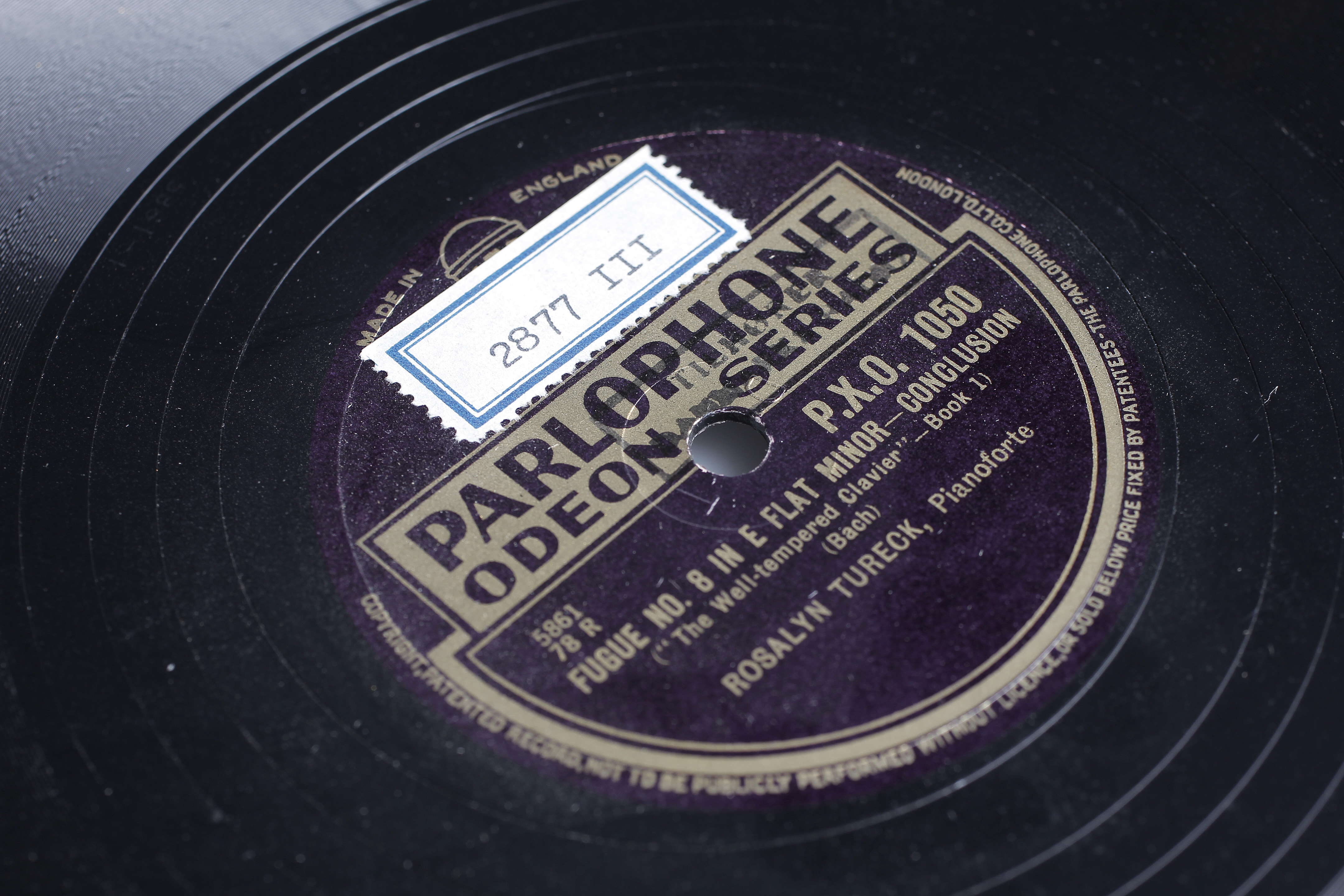 Danmarks Radios arkiv af DRs Kulturarvsprojekt / The archive of the Danish Broadcasting Corporation. recording of rosalyn tureck. Photos must be credited "DRs Kulturarvsprojekt"